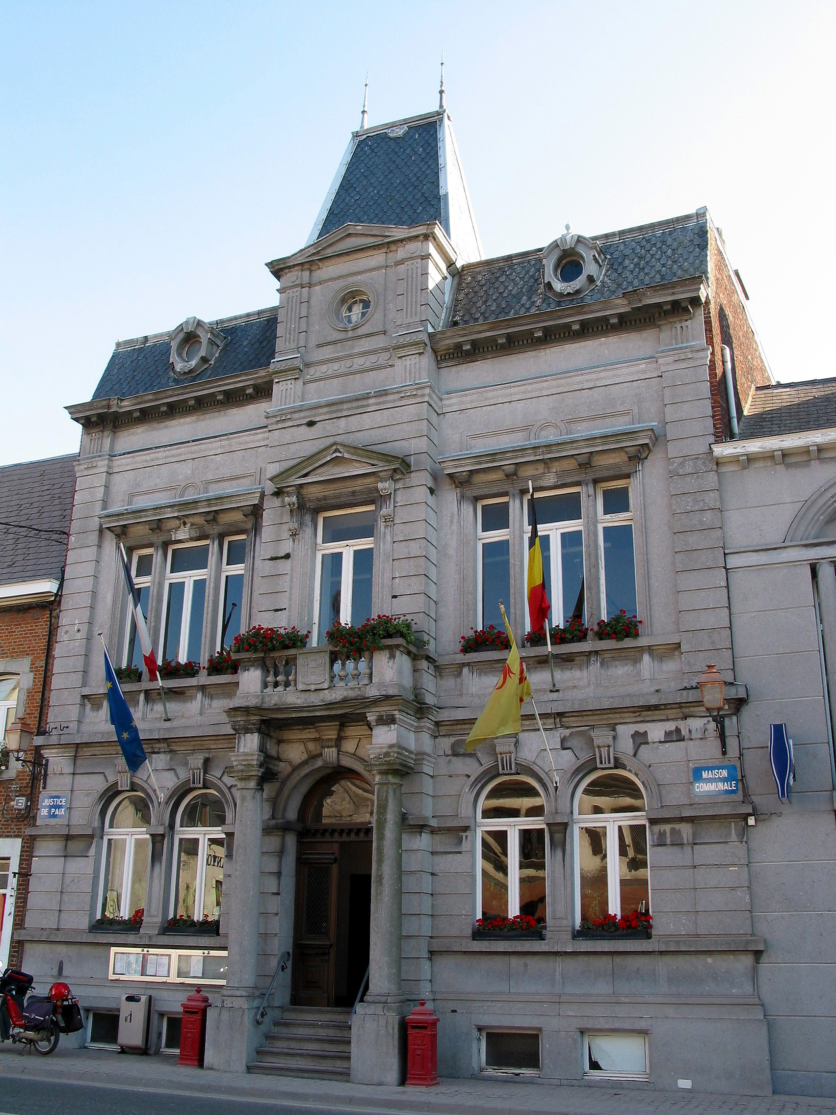 Merbes-le-Château (Belgium), the town hall.